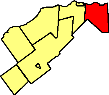 East Hawkesbury